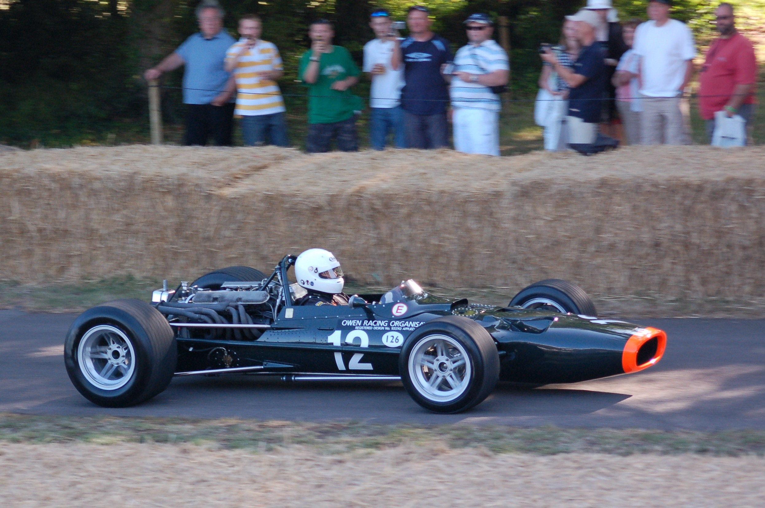 A 1968 BRM P126 being demonstrated at the Goodwood Festival of Speed.